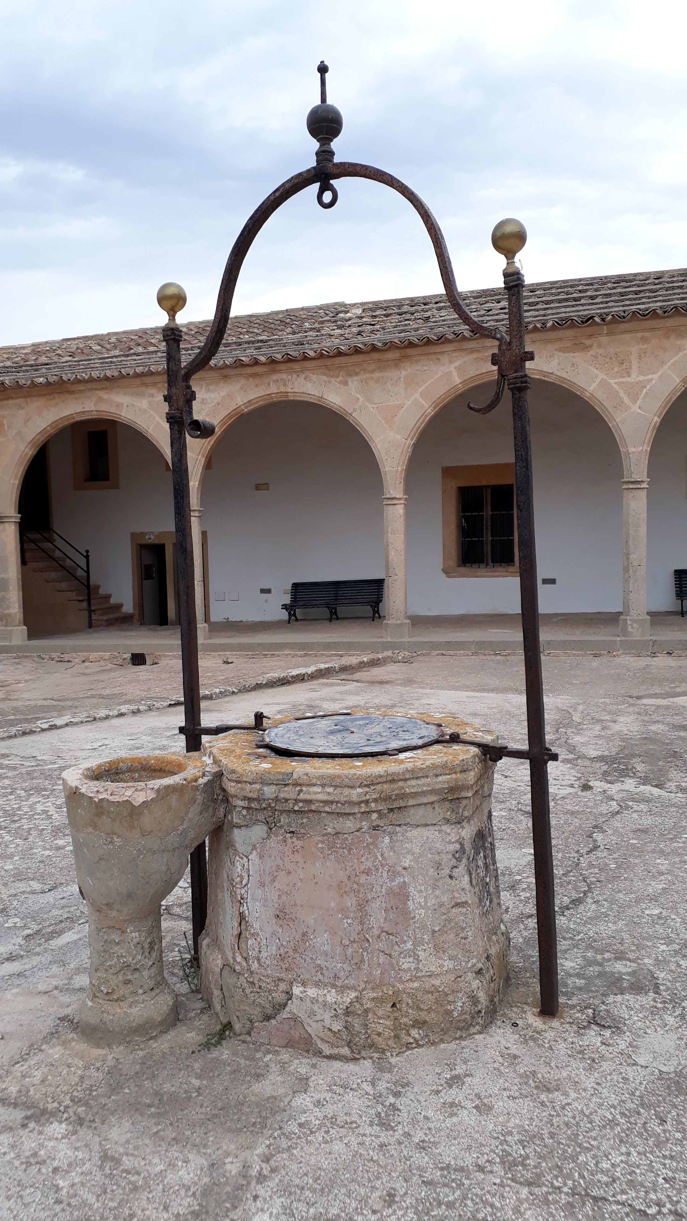 Santuari de Monti-Sión (former monastery and school) near Porreres on Mallorca. Cistern.